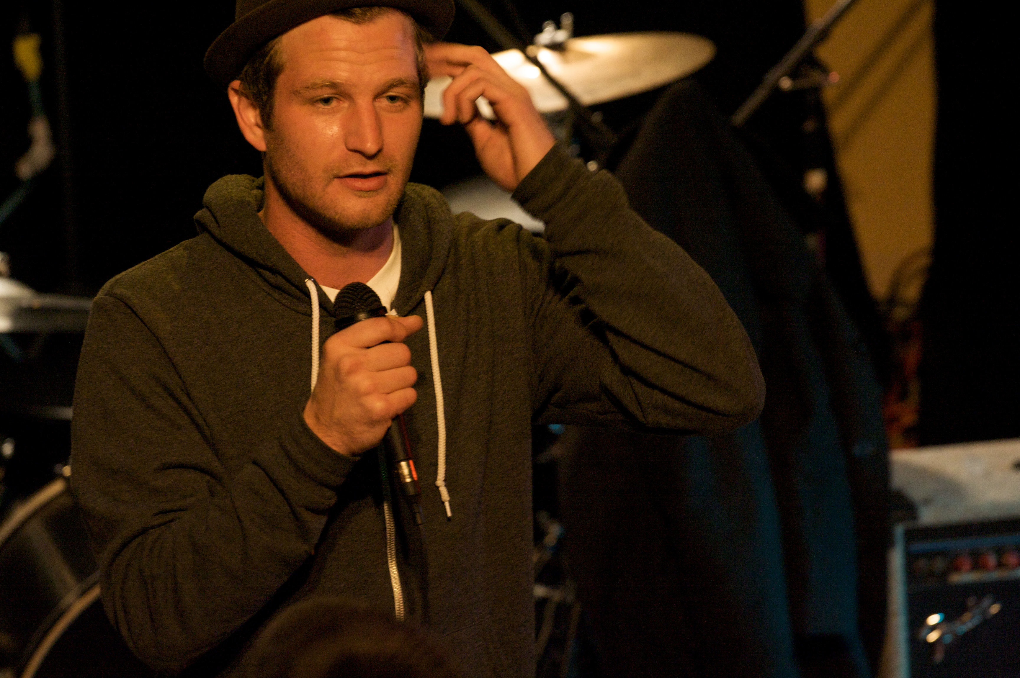 Minnesotan rapper Cecil Otter performing at at the Old #1 for the 2009 HomeKUMMing concert